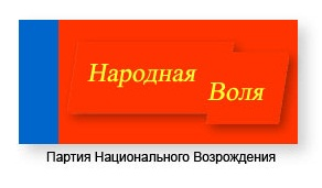 flag Russian party NARODNAYA VOLYA